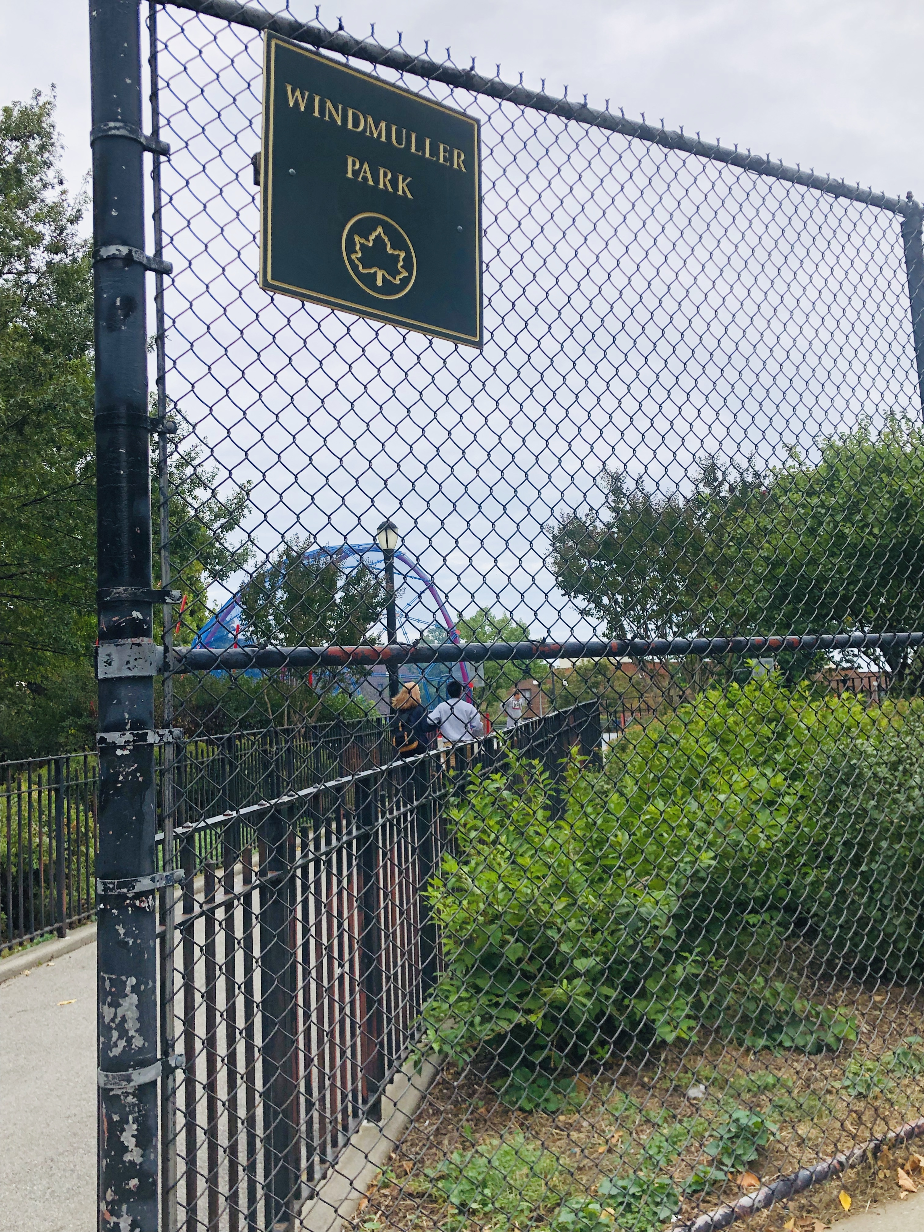 Entrance of Windmuller Park